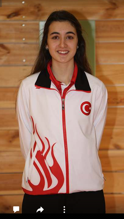 elif kırklar in eryaman ankara tohm sport center